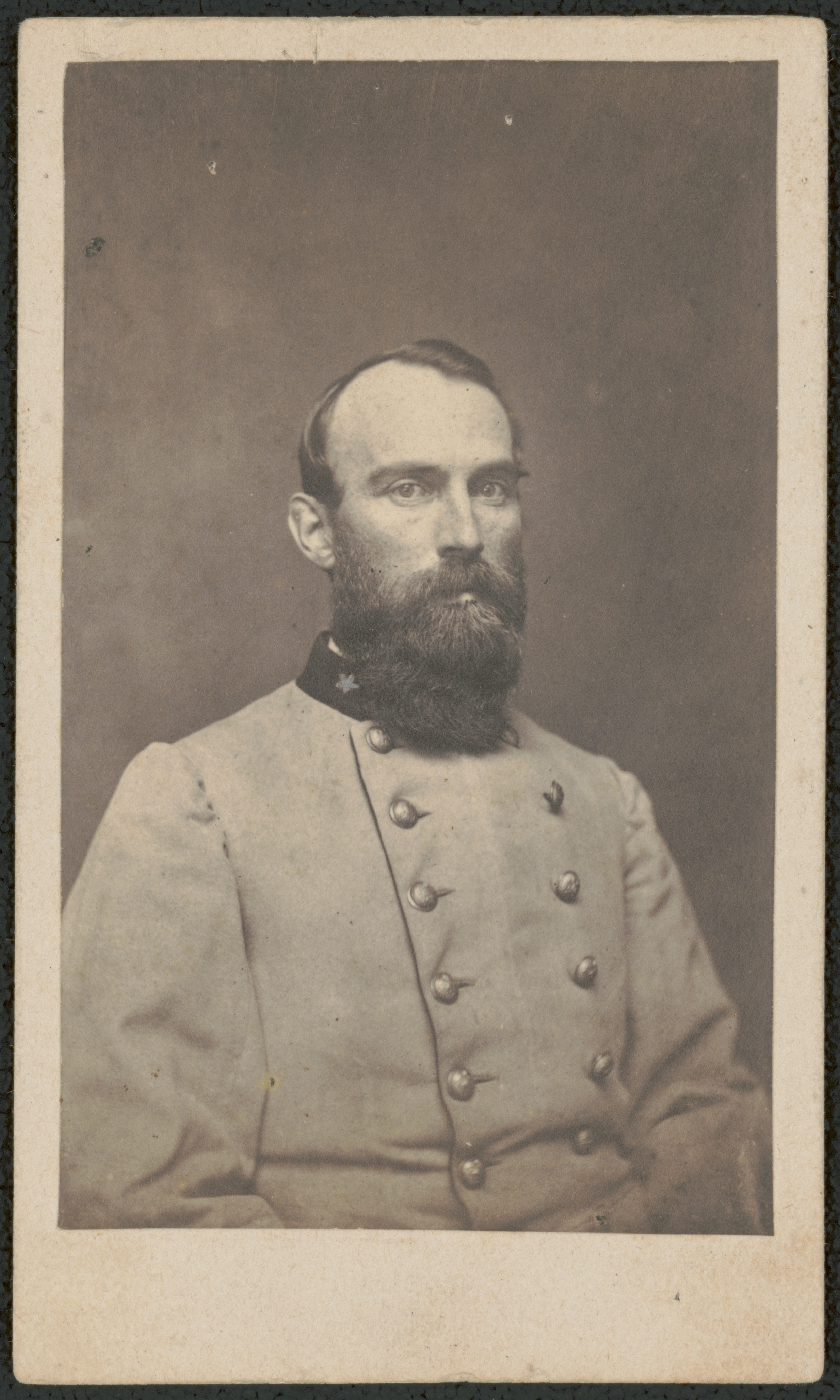 Surgeon Henry Brisco of 26th Virginia Infantry Regiment in uniform, Library of Congress